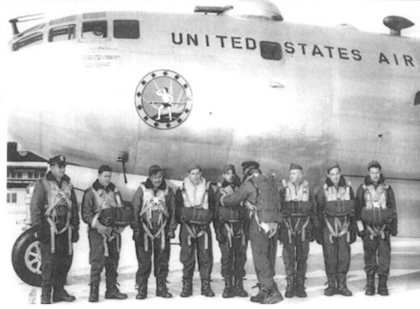 RB-29 – 1 SRS, Forbes Field, 1948